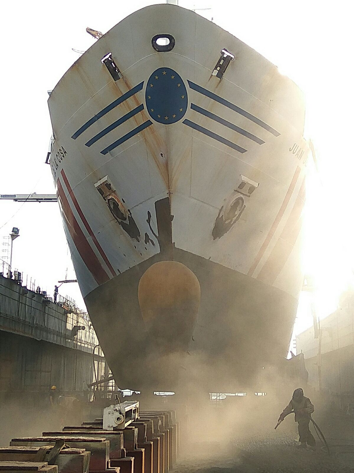 Juan de la Cosa ship in Pasaia, 2016